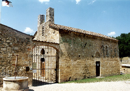 Facade of the Castello della Magione with gate and chapel